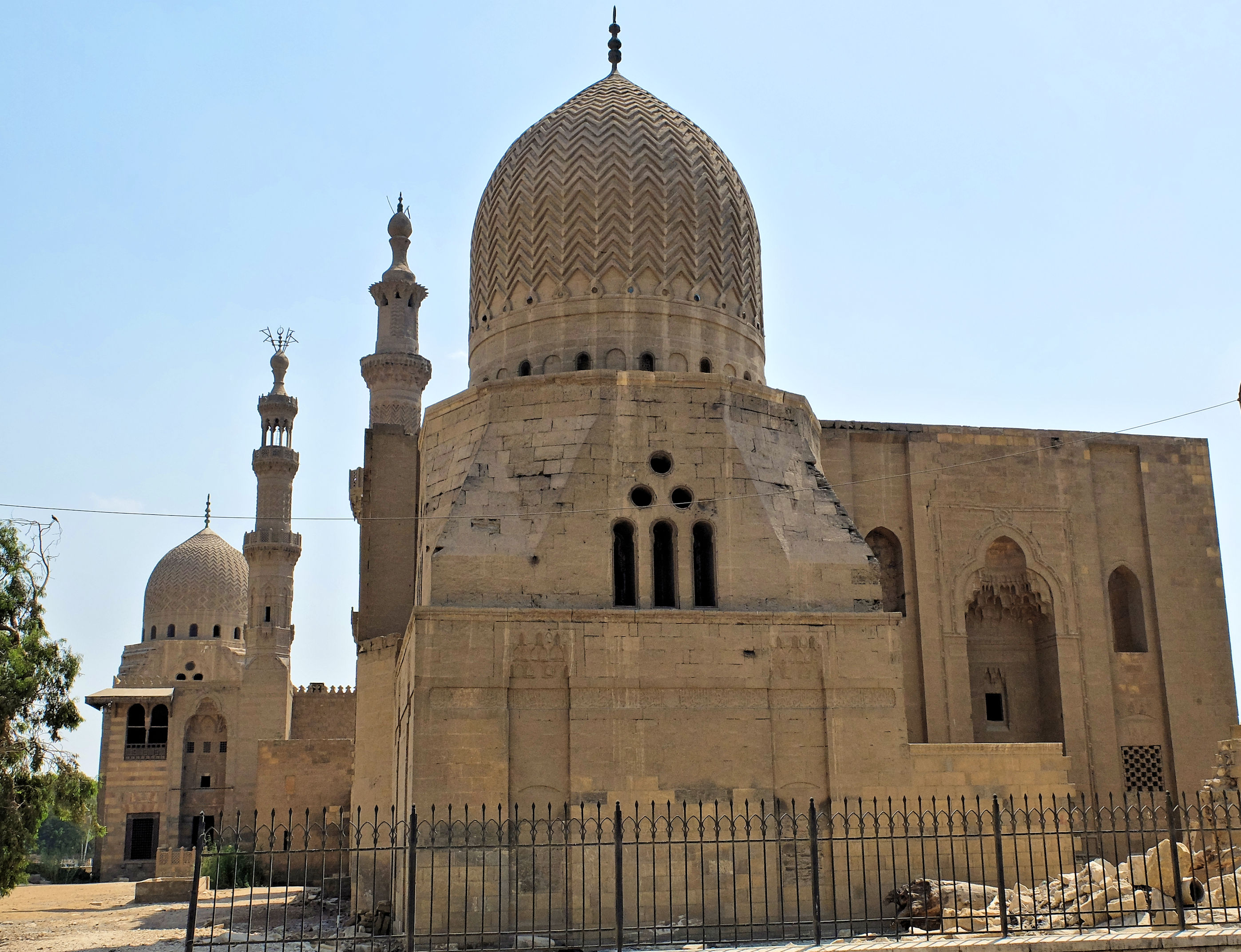 The funerary complex of Sultan Inal, with the complex of Amir Qurqumas visible on the left.